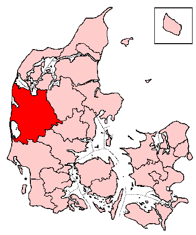 Map of Ringkøbing County 1793-1970